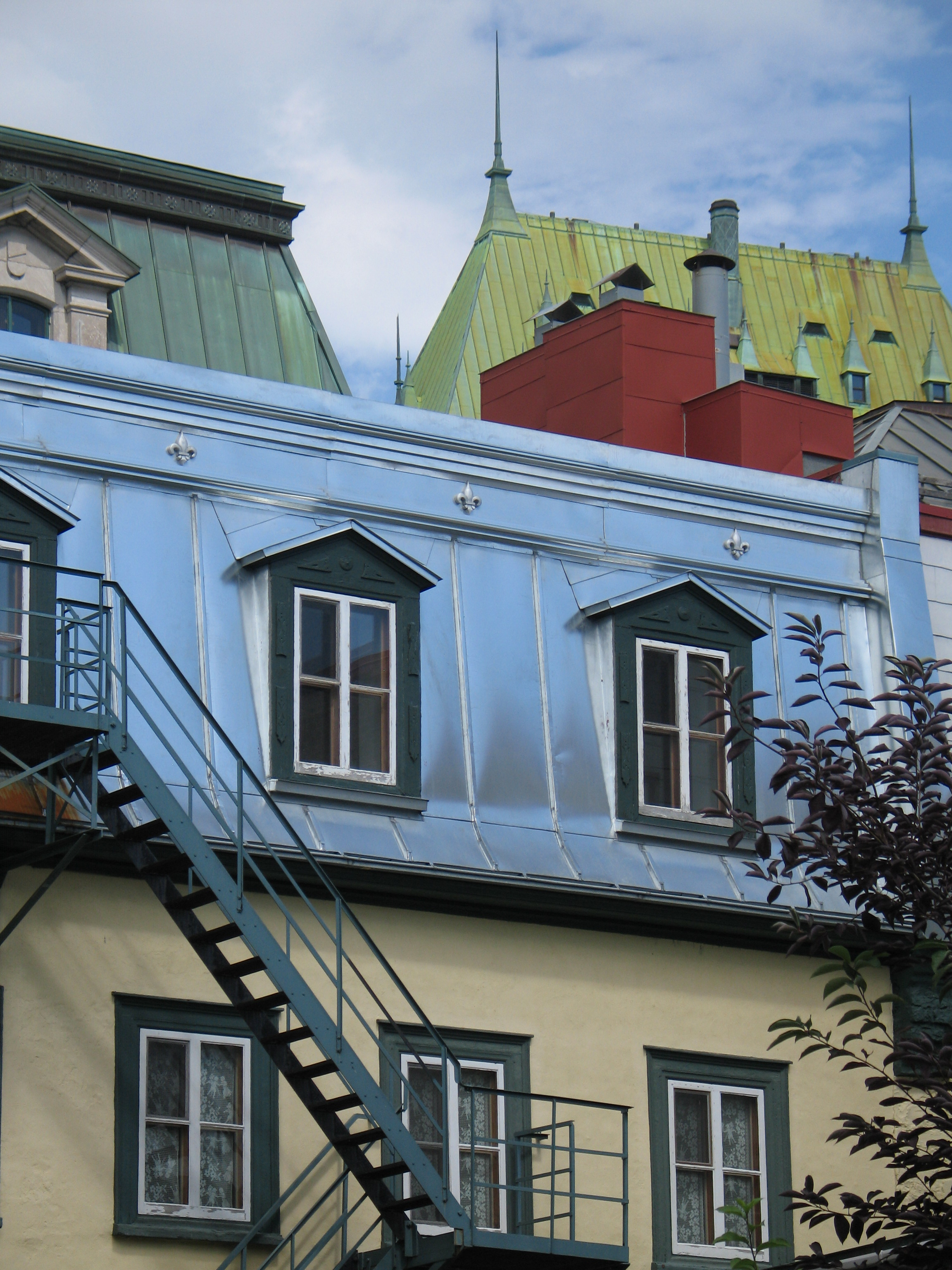 Rooftops in the historic district of Quebec City. The Château Frontenac hotel is in the background.